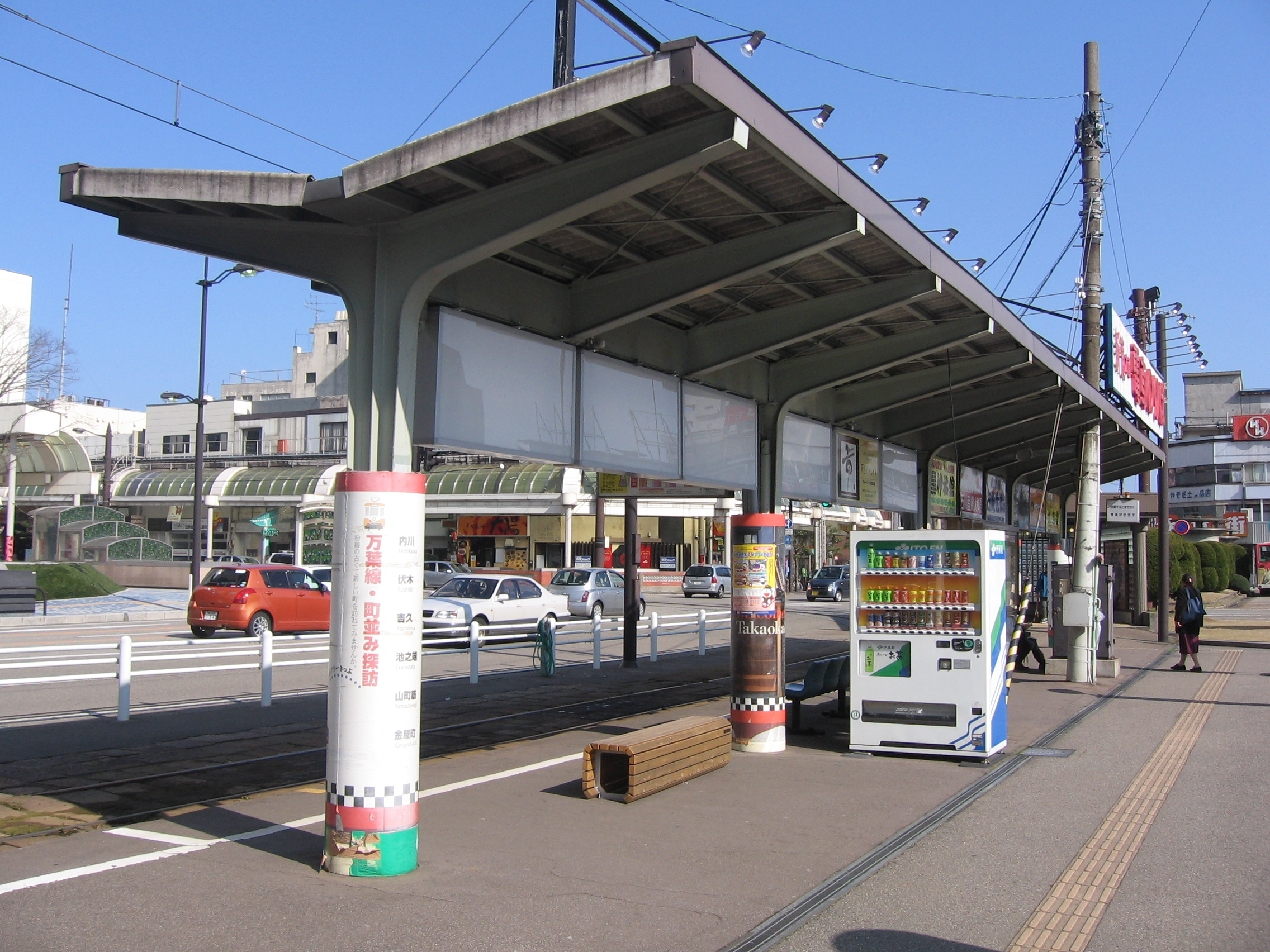 The platform of Takaoka Eki Mae Station of Takaoka Tram Line of Manyosen. In Shimozekimachi, Takaoka, Toyama, Japan.